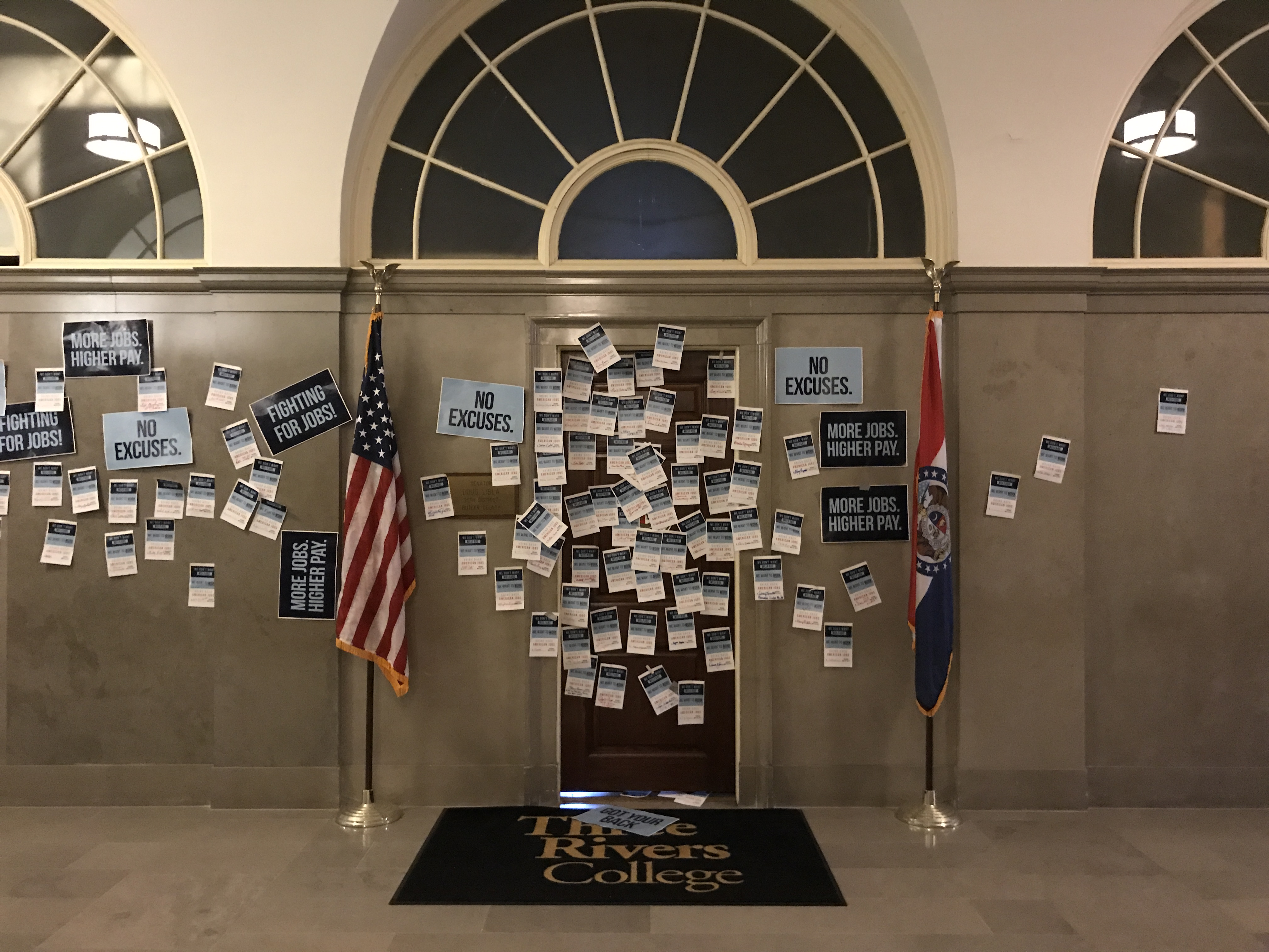 Greitens led Missouri workers around to offices of state senators to leave messages urging the legislature to pass the 2017 Steel Mill Bill.